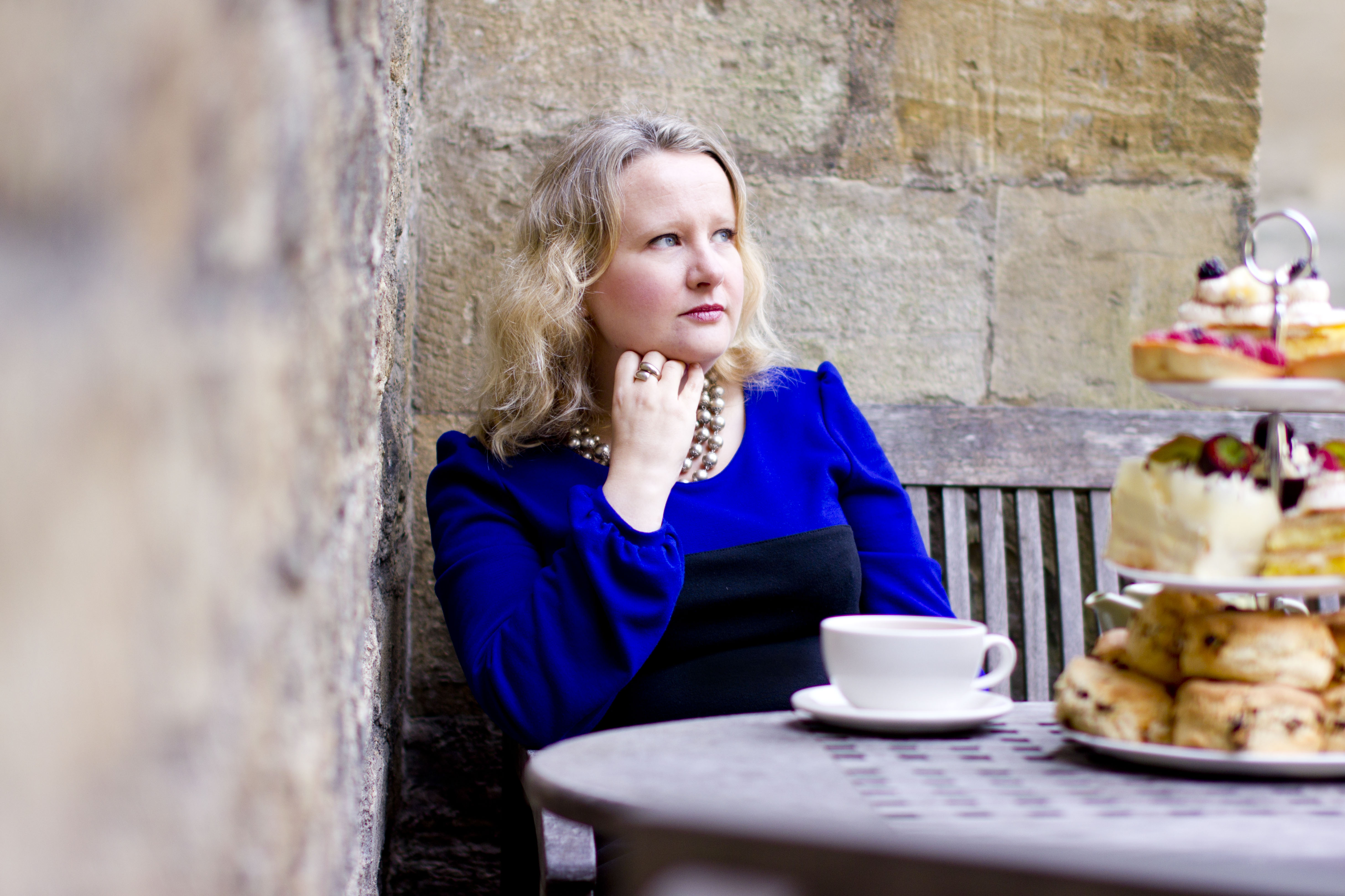 Sirens and Other Mysteries